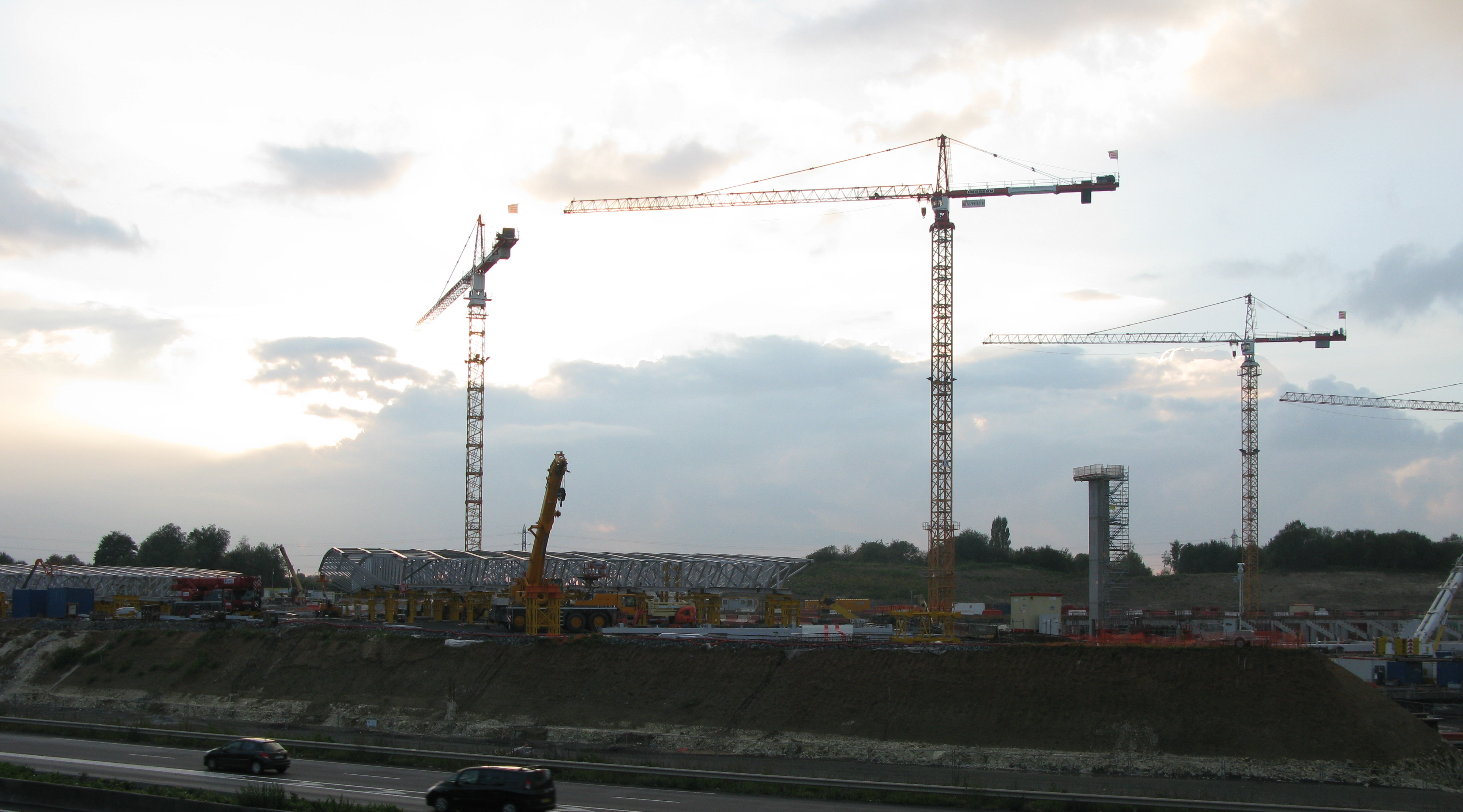 Grand stade Lille Métropole in construction in Villeneuve d'Ascq in September, 2010.